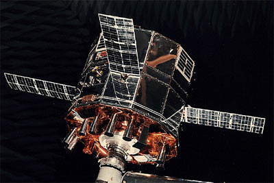 Solrad 10 (Explorers program).